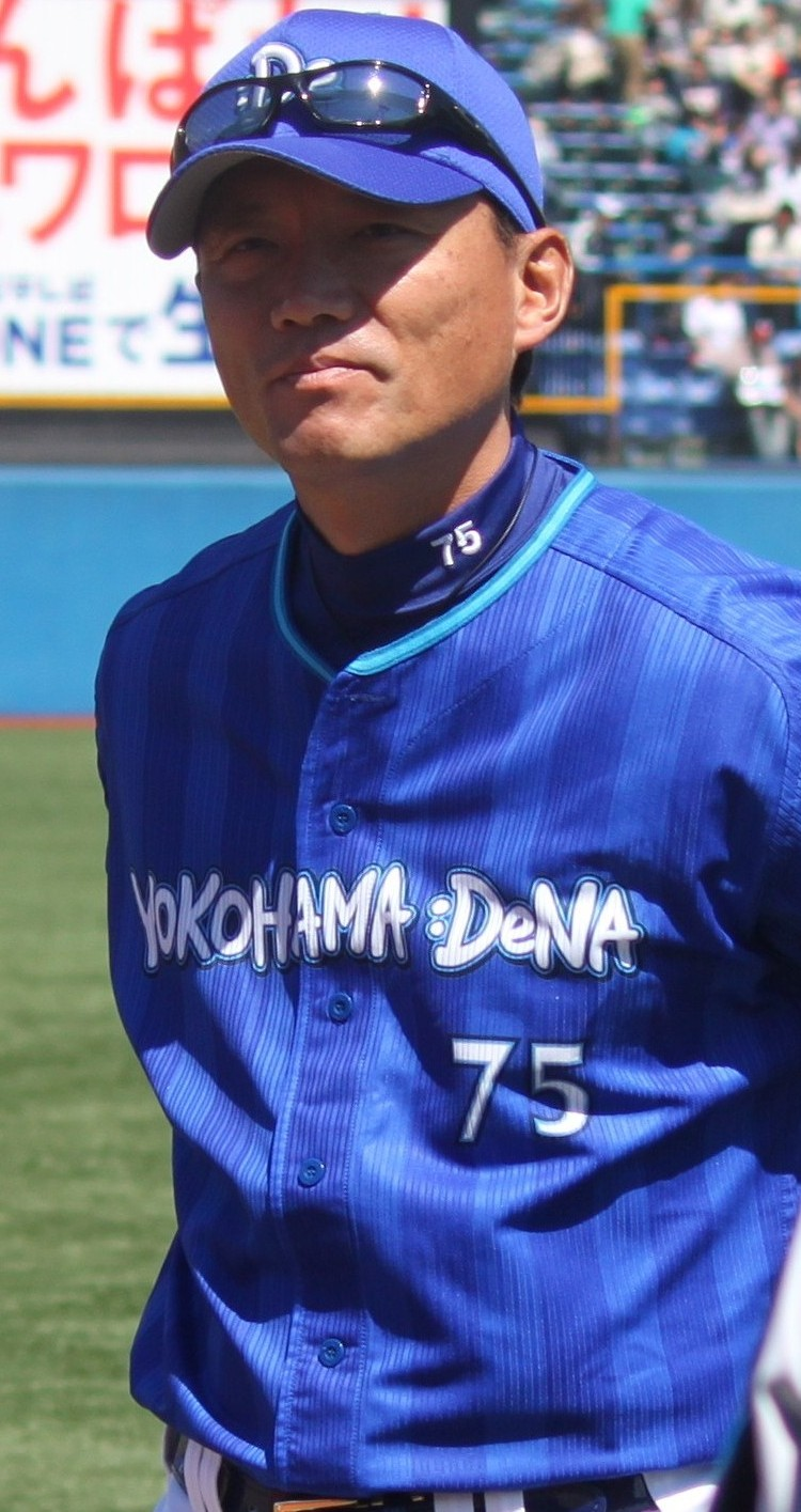 Takeo Kawamura, coach of the Yokohama DeNA BayStars, at Meiji Jingu Stadium.